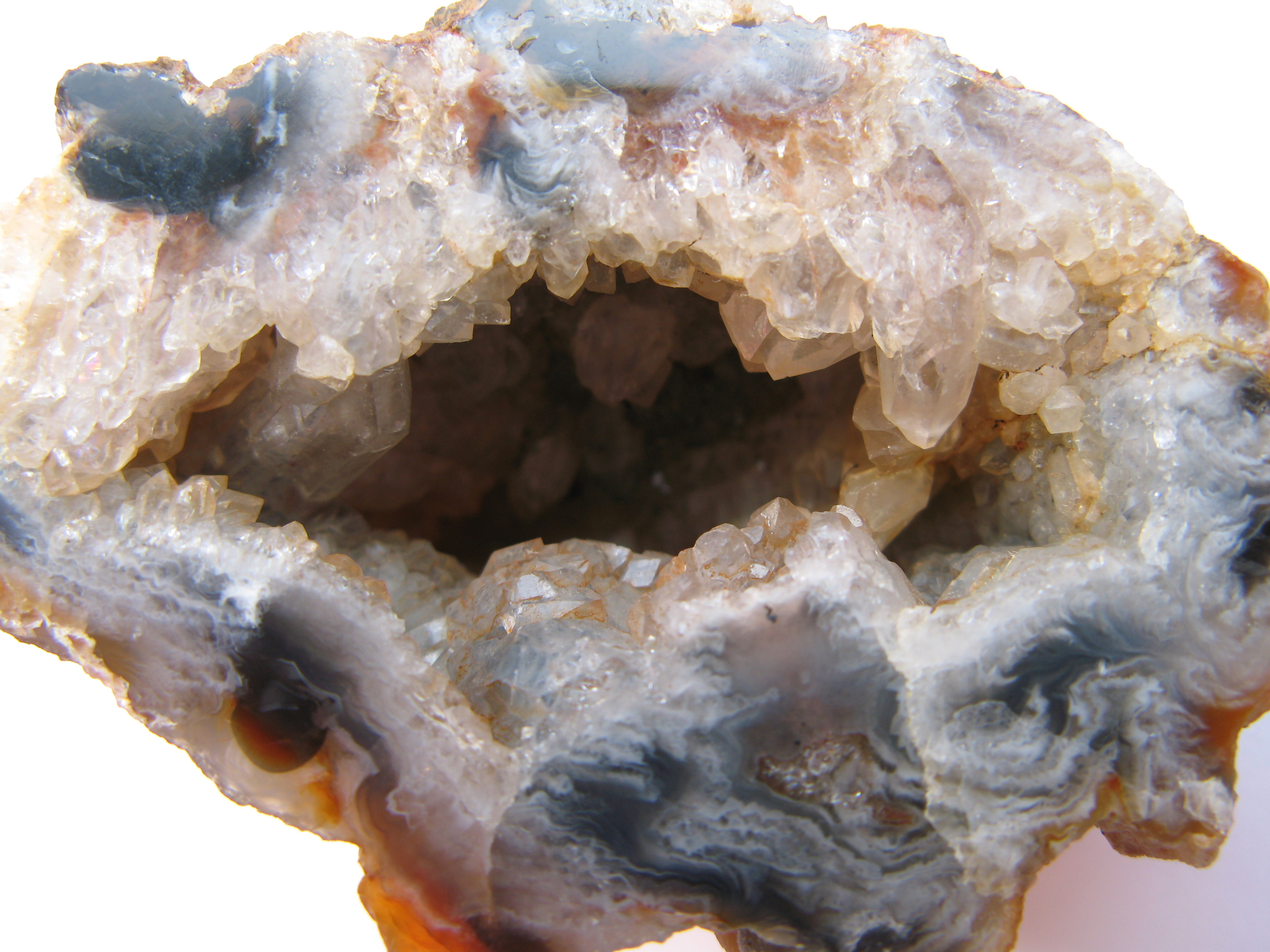 Agate-Geode mit Quartz-crystals